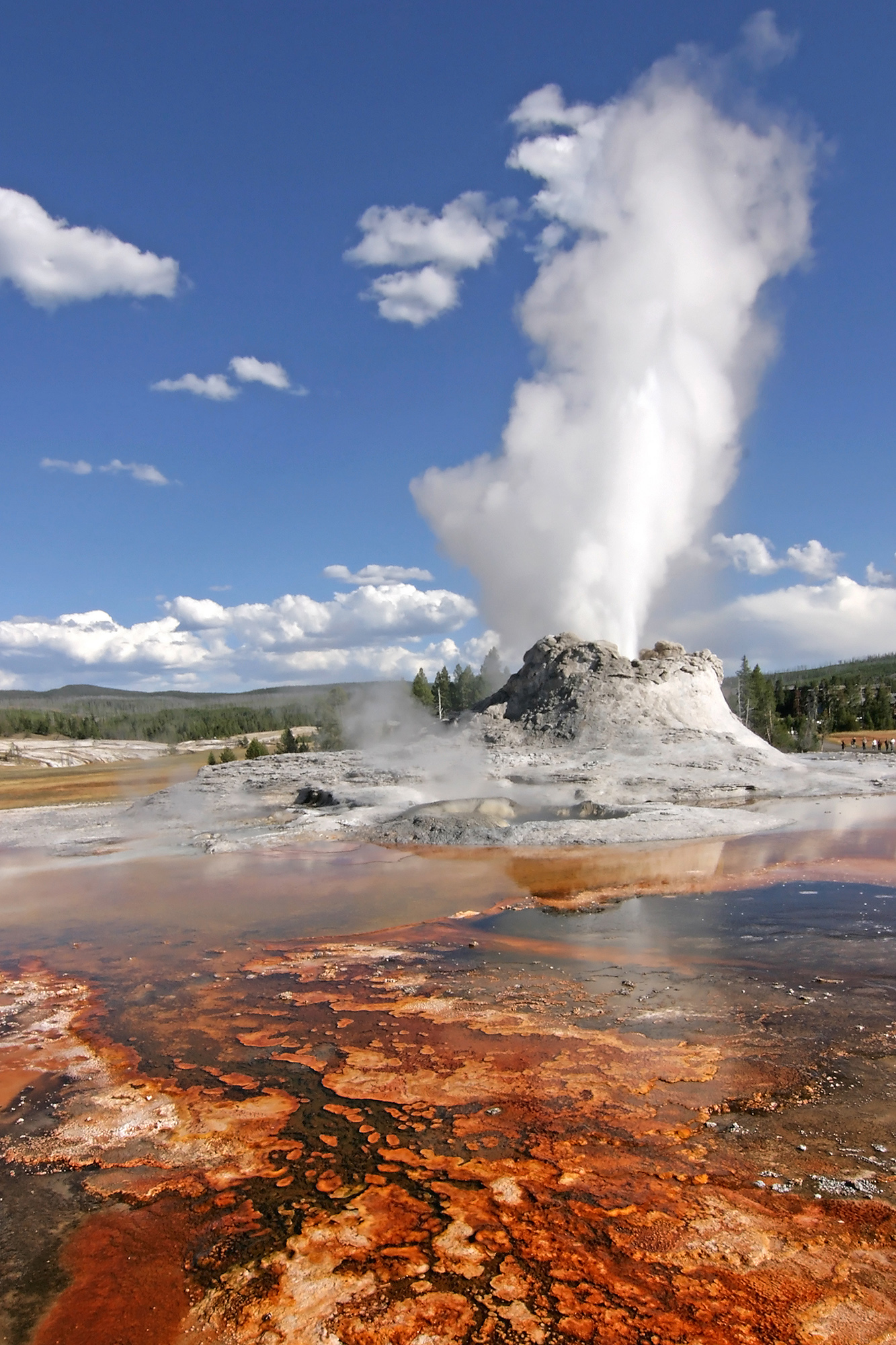 Castle Geyser during an eruption. Yellowstone National Park, Wyoming, USA.